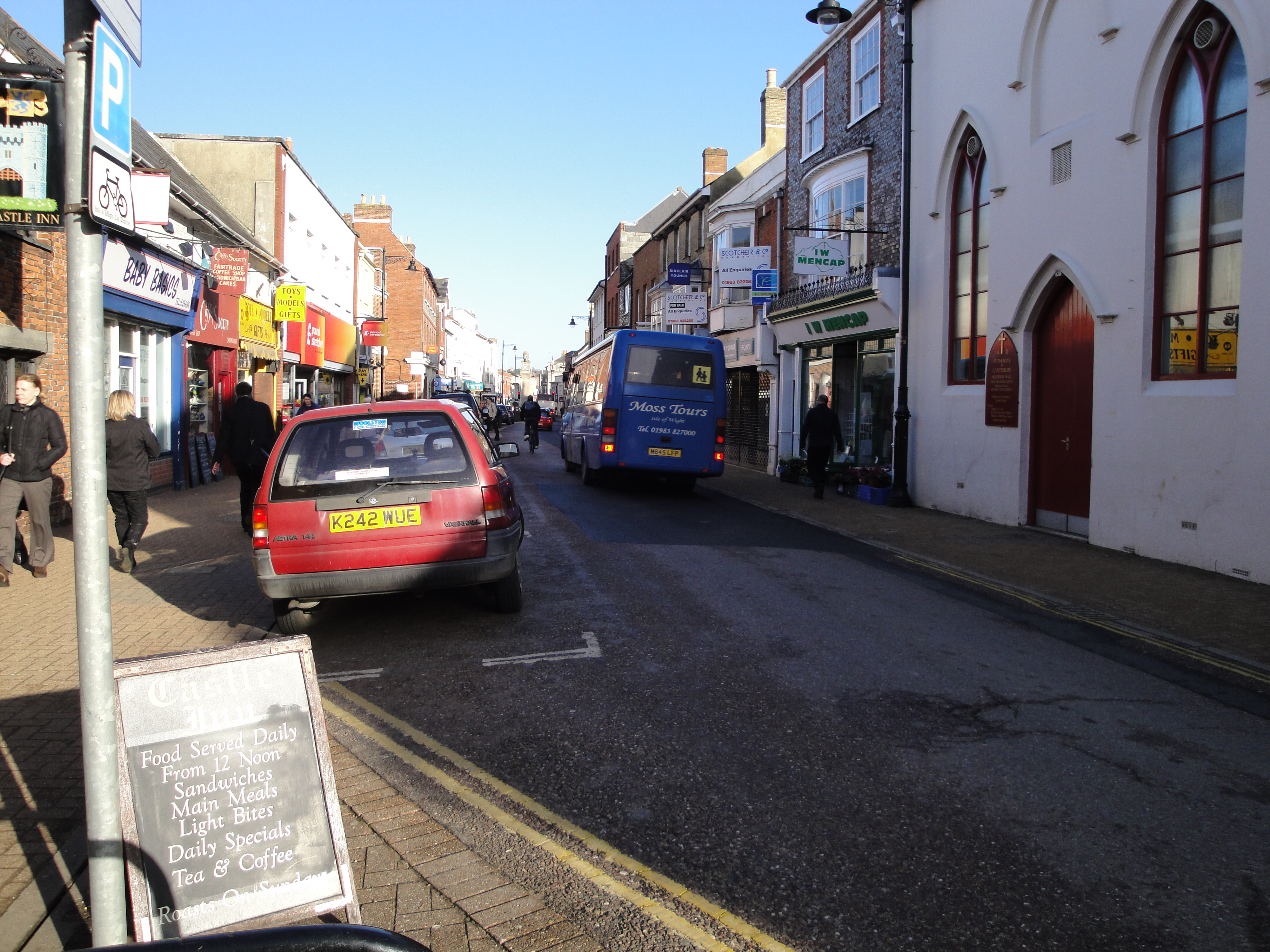 The top of the High Street, Newport, Isle of Wight in February 2010, viewed looking towards the centre of the town.